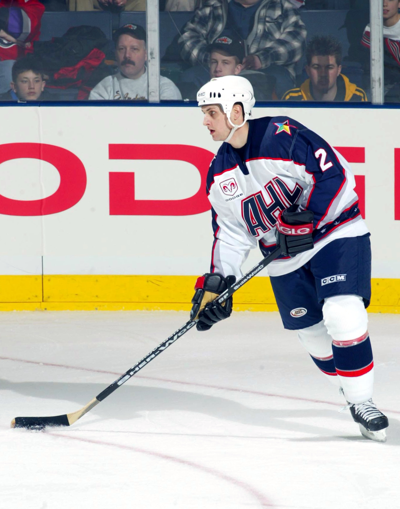 Photo: Jason Pulver/AHL